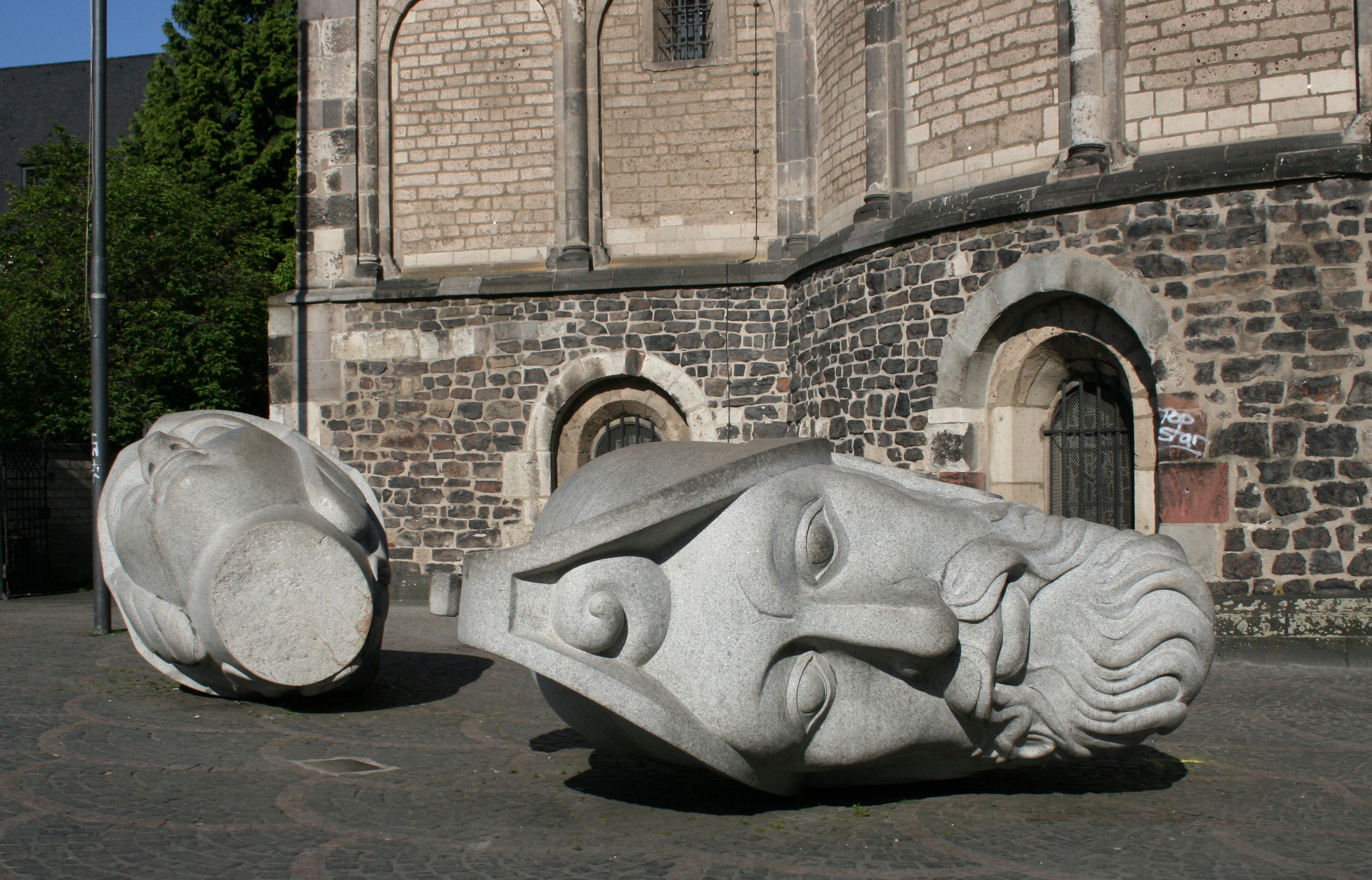 Cassius and Florentius, patron saint of Bonn, sculpture in front of Bonn Minster